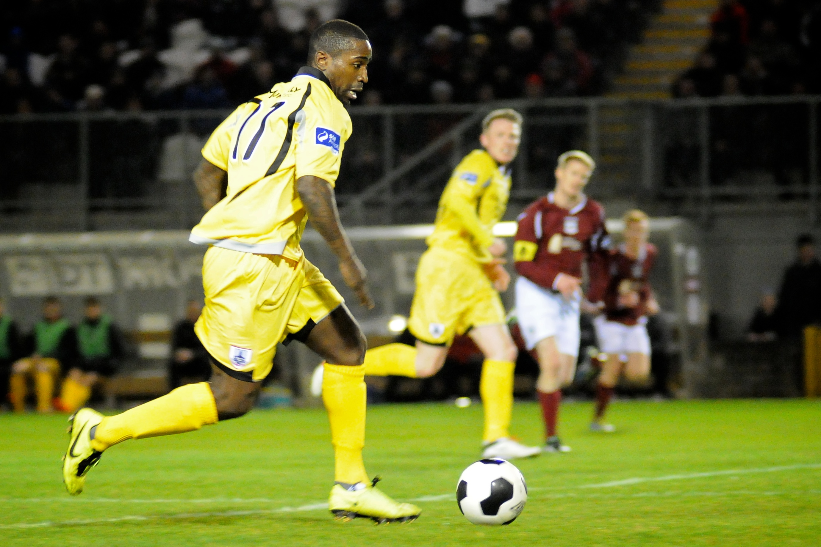 Don Cowan in action for Longford Town in a 0-1 win against Galway F.C. in the League of Ireland 1st Division in March 2014